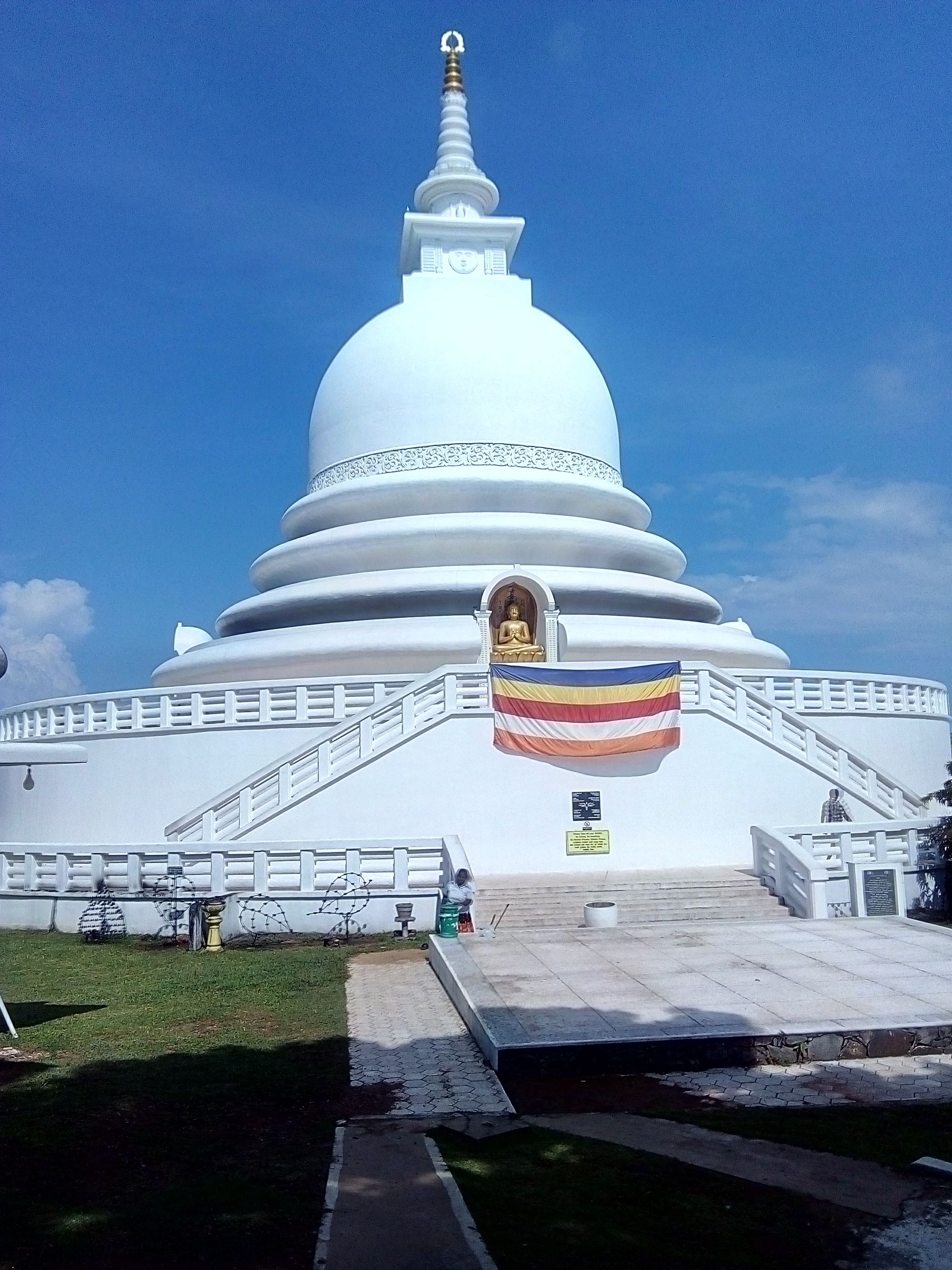 Japan Sama Chaithya Unawatuna